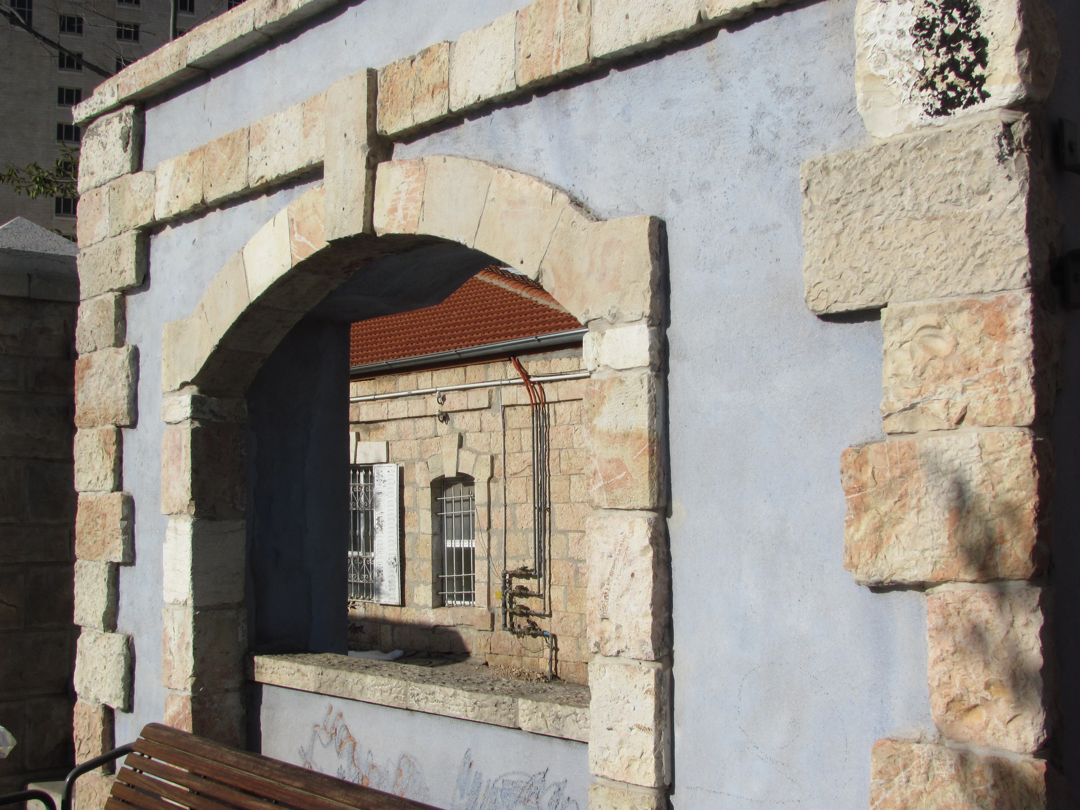 Historic home in Sha'arei Yerushalayim neighborhood of Jerusalem, as viewed through a concrete memorial set with one of the original window frames from buildings razed to make way for the Jerusalem Light Rail.